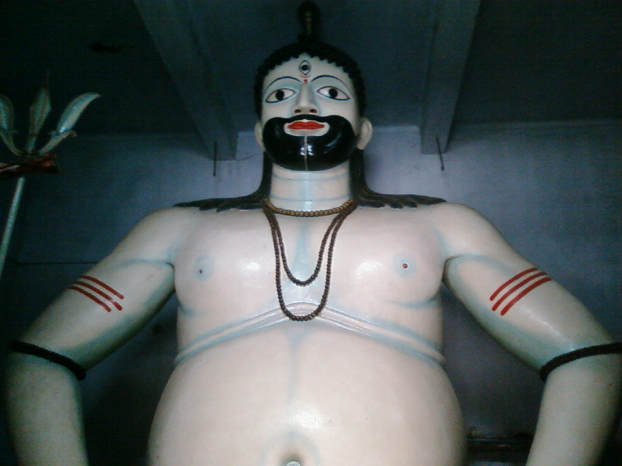 Sri Sri Kal Bhairab